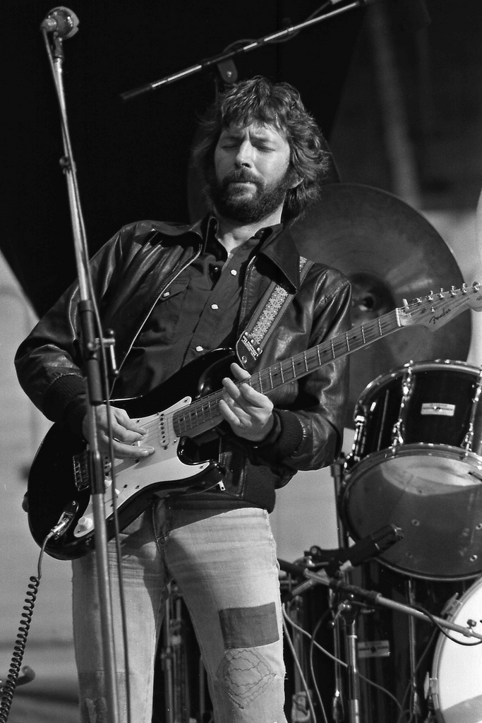 Eric Clapton Rotterdam june 23, 1978